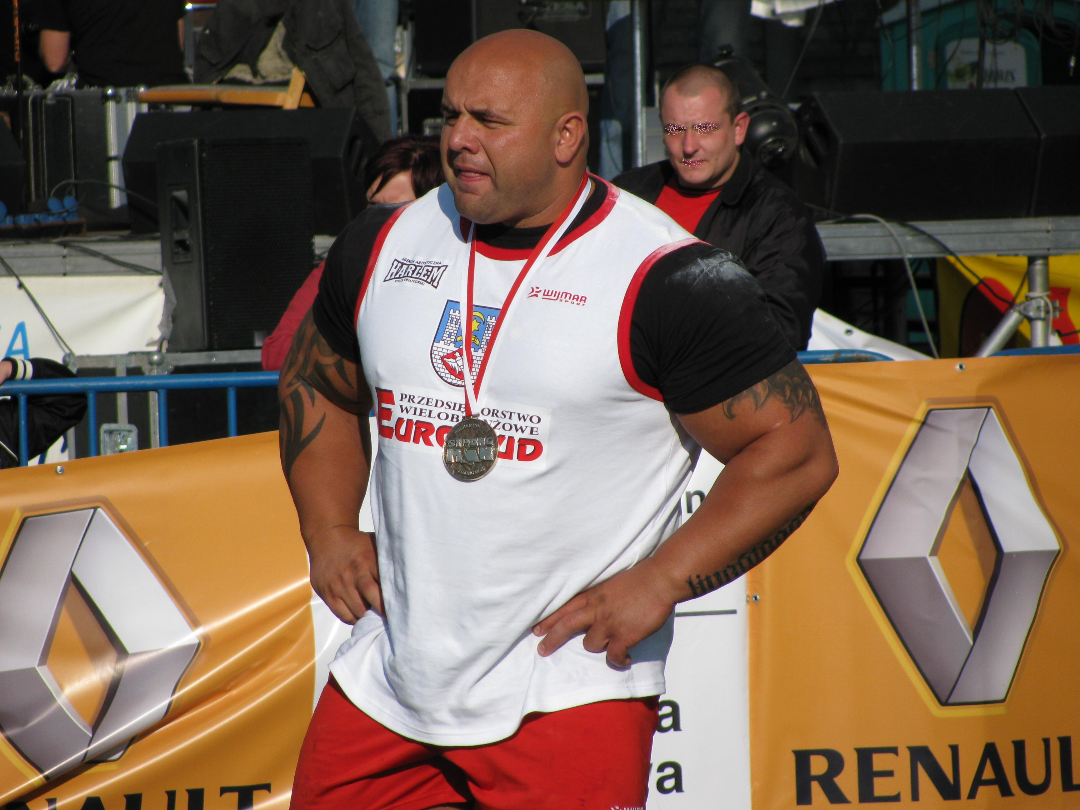 Ireneusz Kuras - a strength athlete from Poland